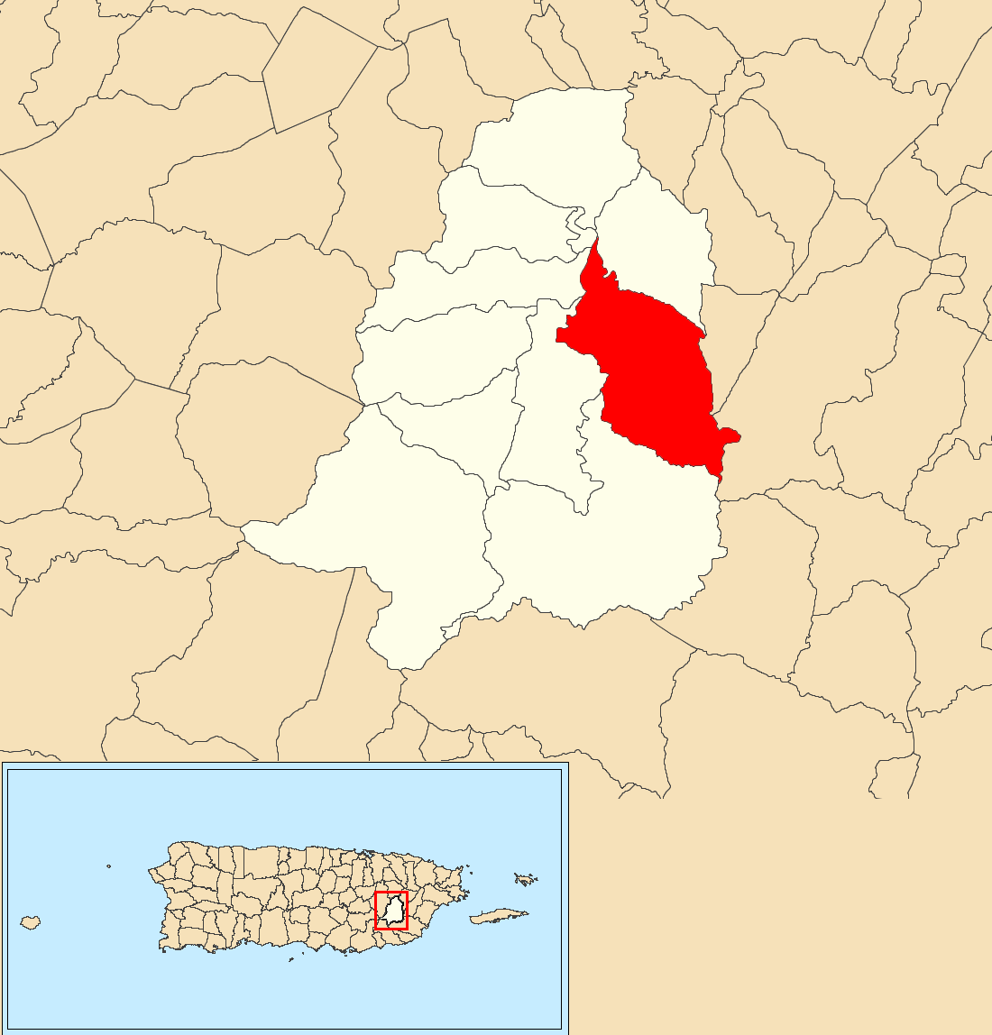 Cerro Gordo, San Lorenzo, Puerto Rico locator map